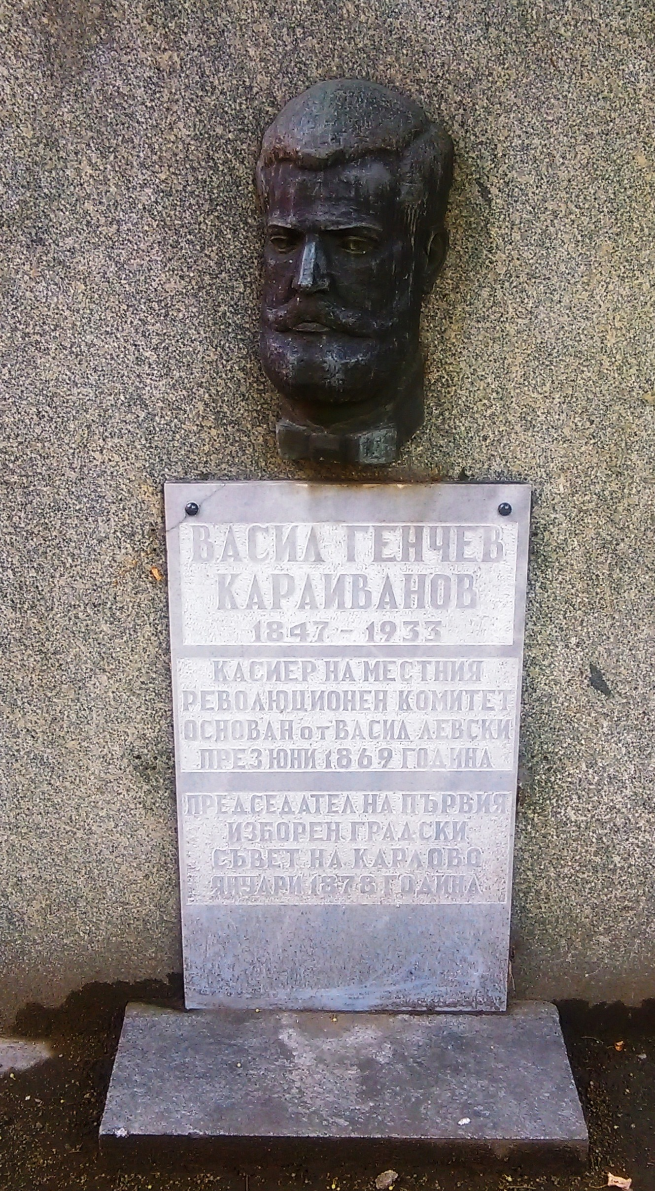 Vasil Karaivanov memorial in Karlovo, Bulgaria